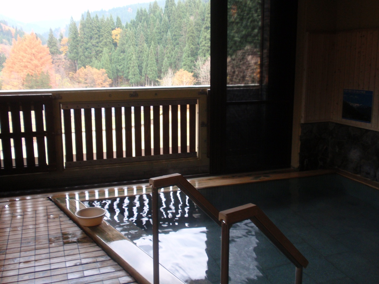 Shiramine onsen Tenbou no yu in Hakusan, Ishikawa.